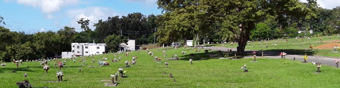 Walter Mercado, astrologer is buried in one of these plots in Señorial Memorial Park and Funeral Home, in Cupey barrio, San Juan, Puerto Rico